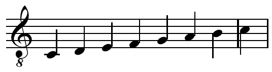 Diatonic scale on C, transposing clef.